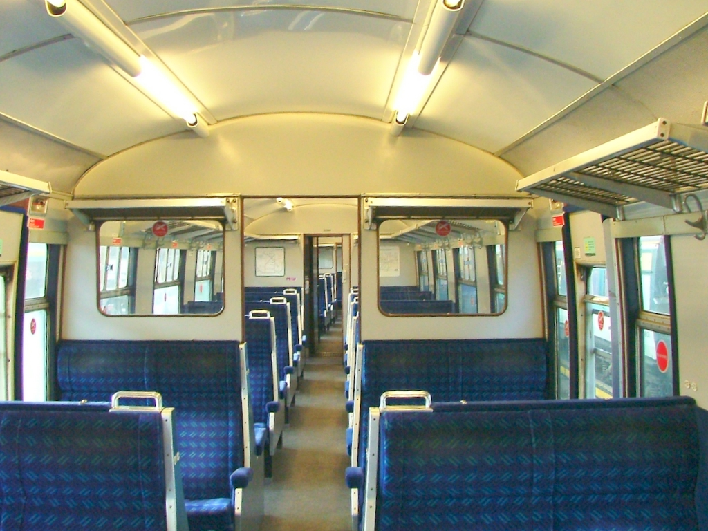 The interior of an old electric multiple unit - It has has been modernised about 10 times in its lifetime. It has doors you open yourself when it first ran, and it shared the line with the last of the steam hauled trains. Taken in Brighton, England.Inside a 1950s train. . . .